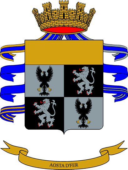 Coat of Arms of the 6° Cavalry Regiment; Italian Army.